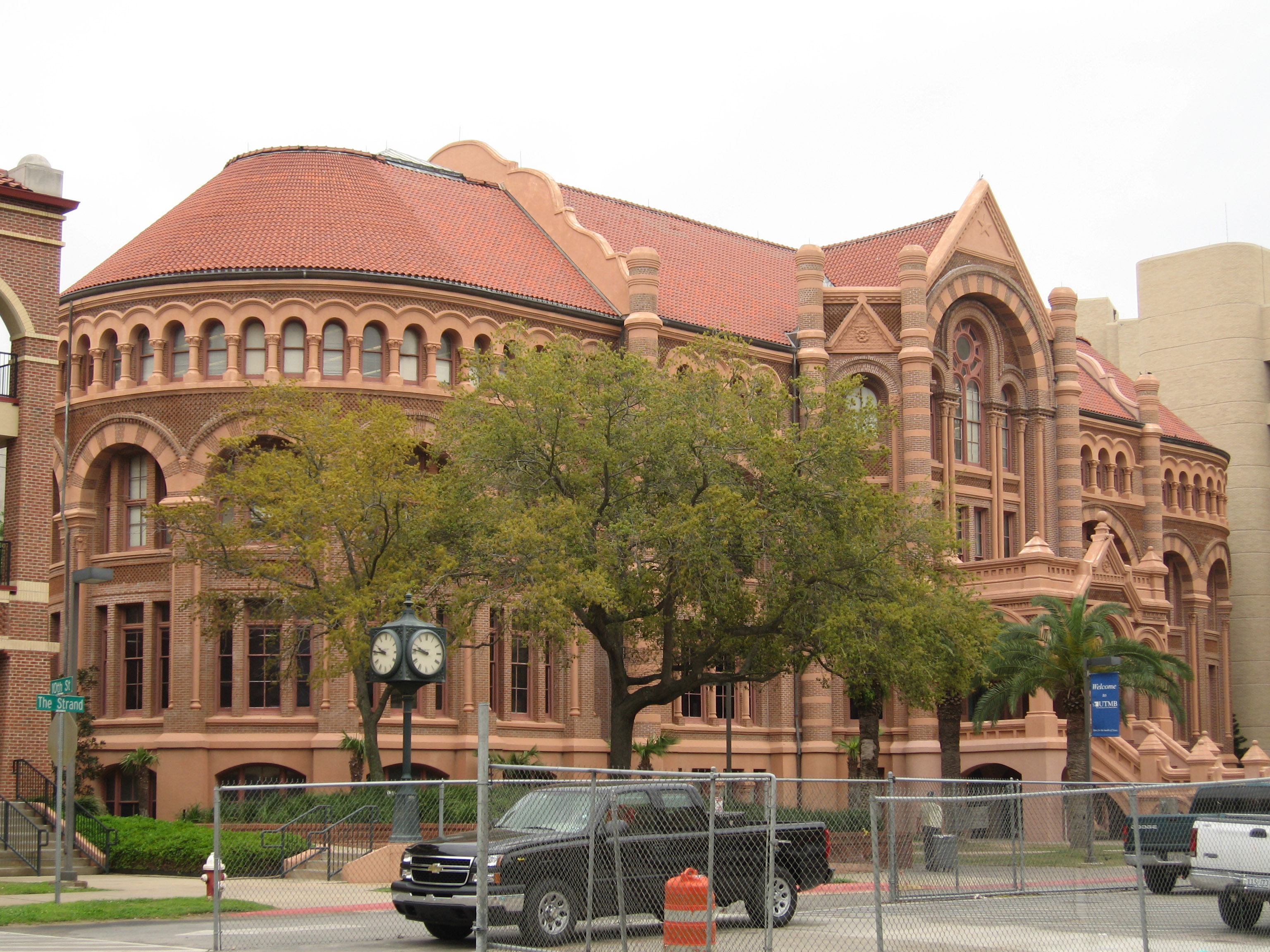 Old Red, the original building on UTMB's campus in Galveston, Texas. Taken on March 16, 2006 by Laura Scudder.